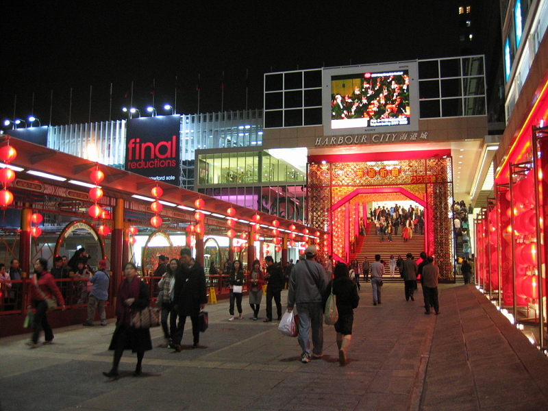 Harbour City Lunar New Year 2006 decoration 海港城農曆新年佈置 2006年